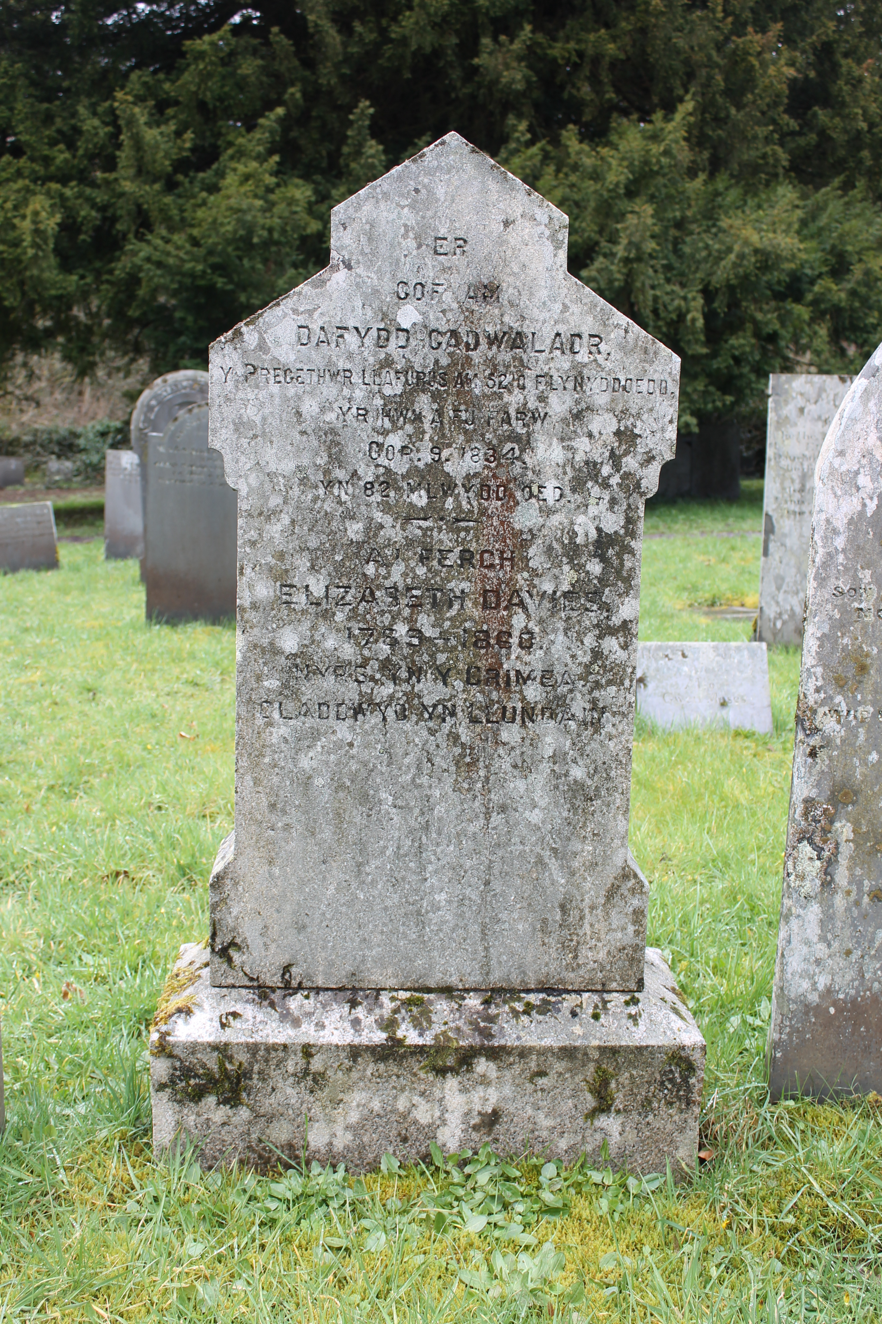 Dafydd Cadwaladr, father of Betsi Cadwaladr. St Beuno's Church, Llanycil, Bala, Gwynedd, North Wales.